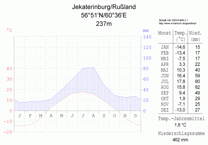 climate chart in the format by Walther and Lieth, metric, °Celsisus and millimeters, made with Geoklima 2.1